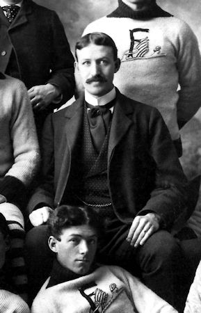 James T Sutherland as manager of the Kingston Frontenacs circa 1899